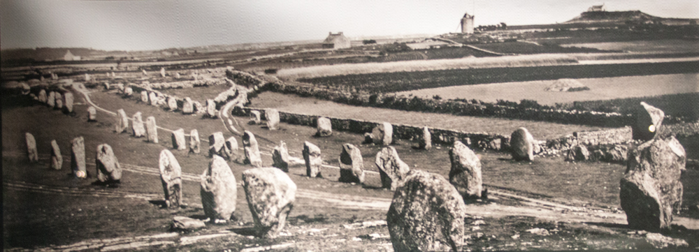 View_of_of_the_Carnac_stone_lines_and_the_tumulus_St_Michel,_c_1862